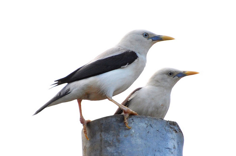 White-headed Starling Sturnia erythropygia. Shot taken in Neil Island, Andaman.